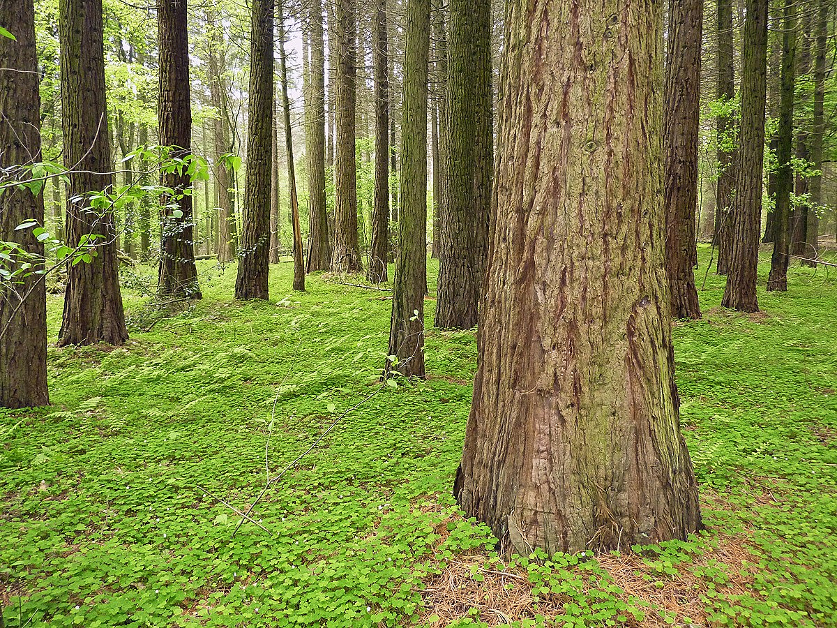 60 years old stock of Sequoiadendron giganteum in the test site of "Sequoiafarm Kaldenkirchen"